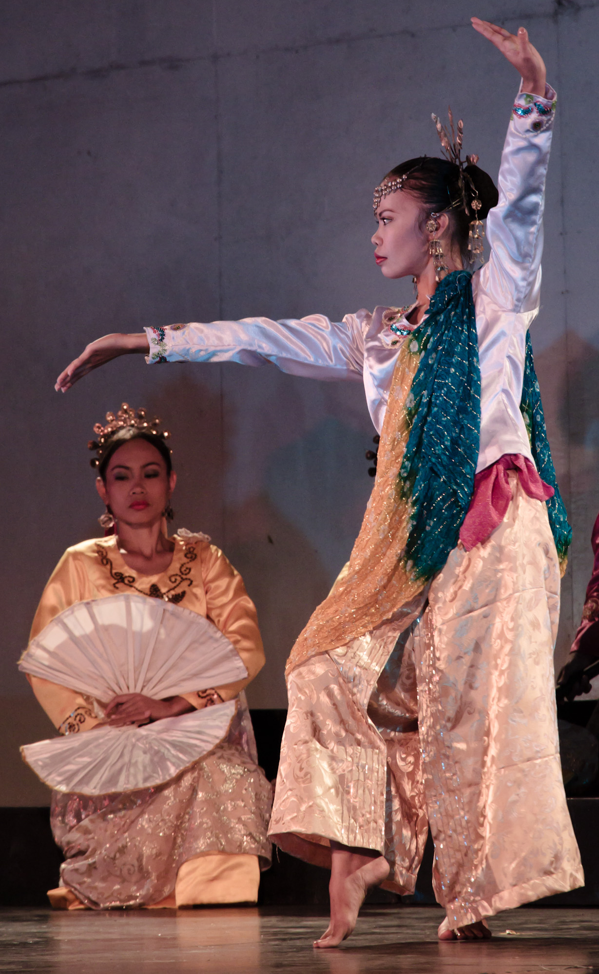 Dancer during show at Villa Escudero